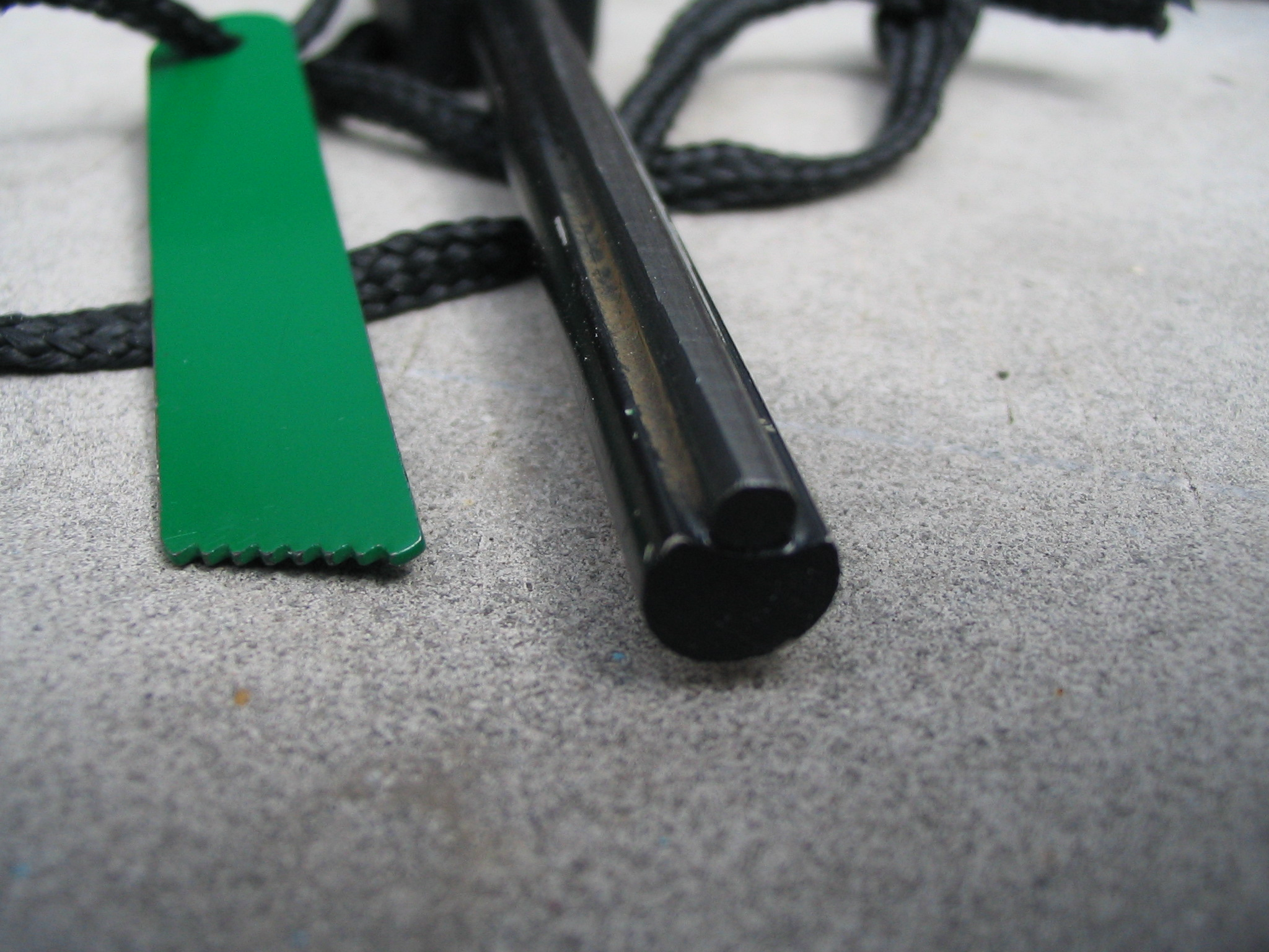 2 components fire-stone : a big magnesium rod + a smaller ferrocerium rod. The sparks lit the magnesium which lit the paper. (a kind of firesteel?)